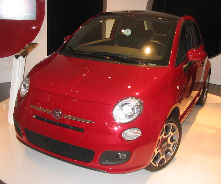 2012 Fiat 500 photographed in Montreal, Quebec, Canada at the 2012 Montreal International Auto Show.